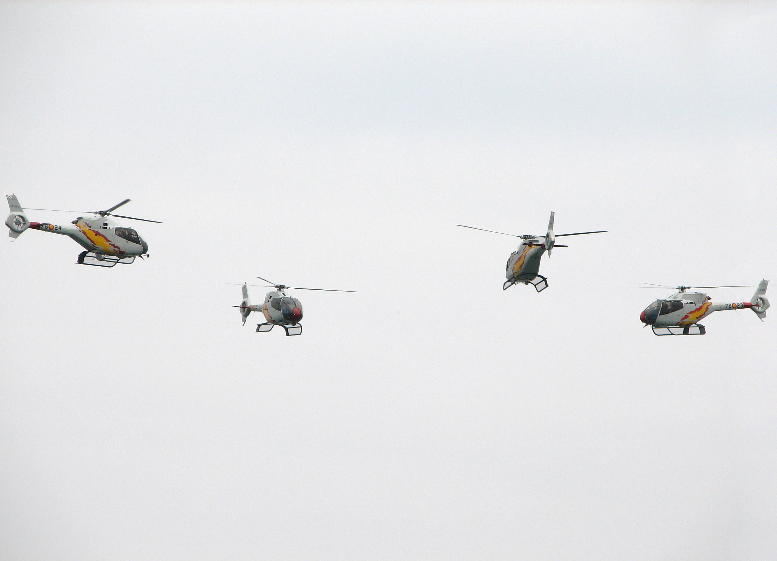 Four Eurocopter Colibri of the Spanish Air Force's acrobatic group Patrulla ASPA in Gijón Air Show 2007. Gijón, Spain. 2007-07-29.